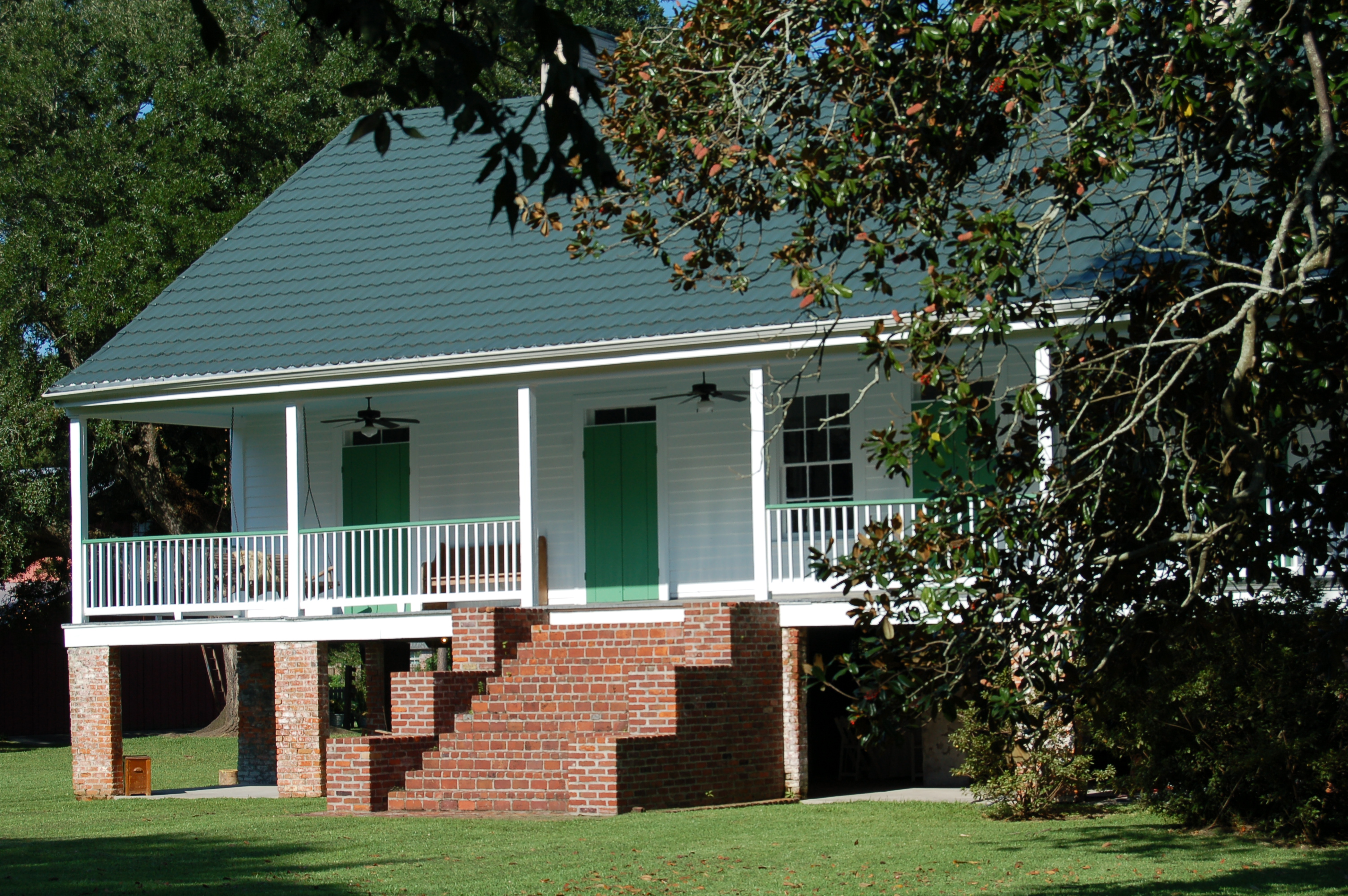 Antonia, 4626 S. River Rd. Port Allen